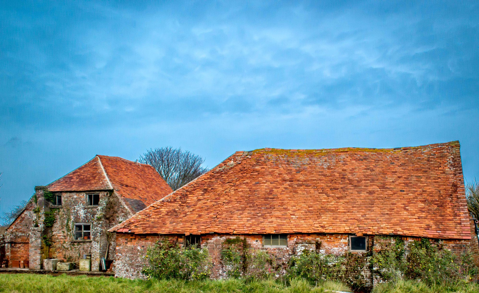 Salt boiling houses, Pennington Marshes, Pennington, Hampshire